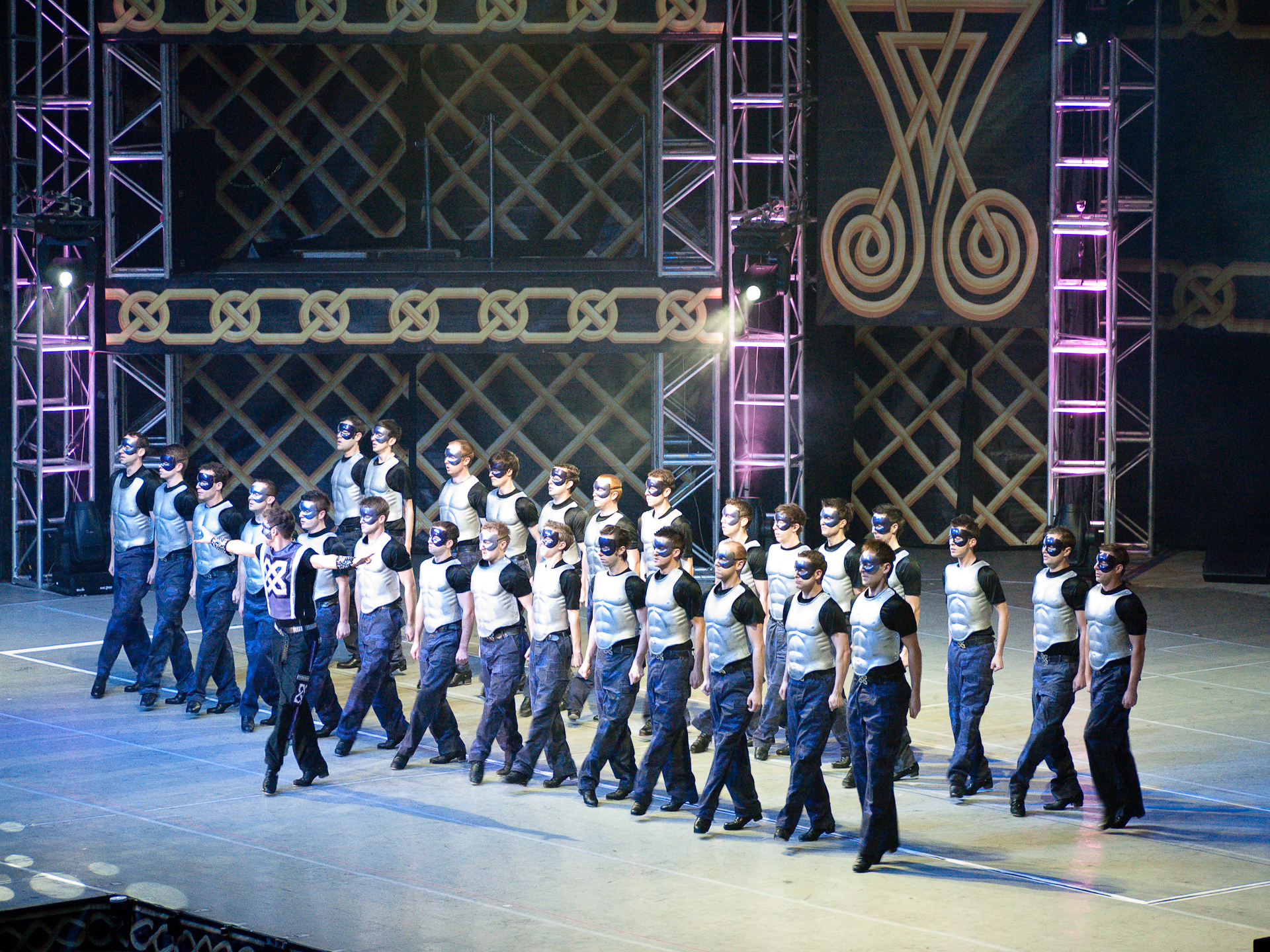 Warriors scene from Michael Flatley's Feet of Flames